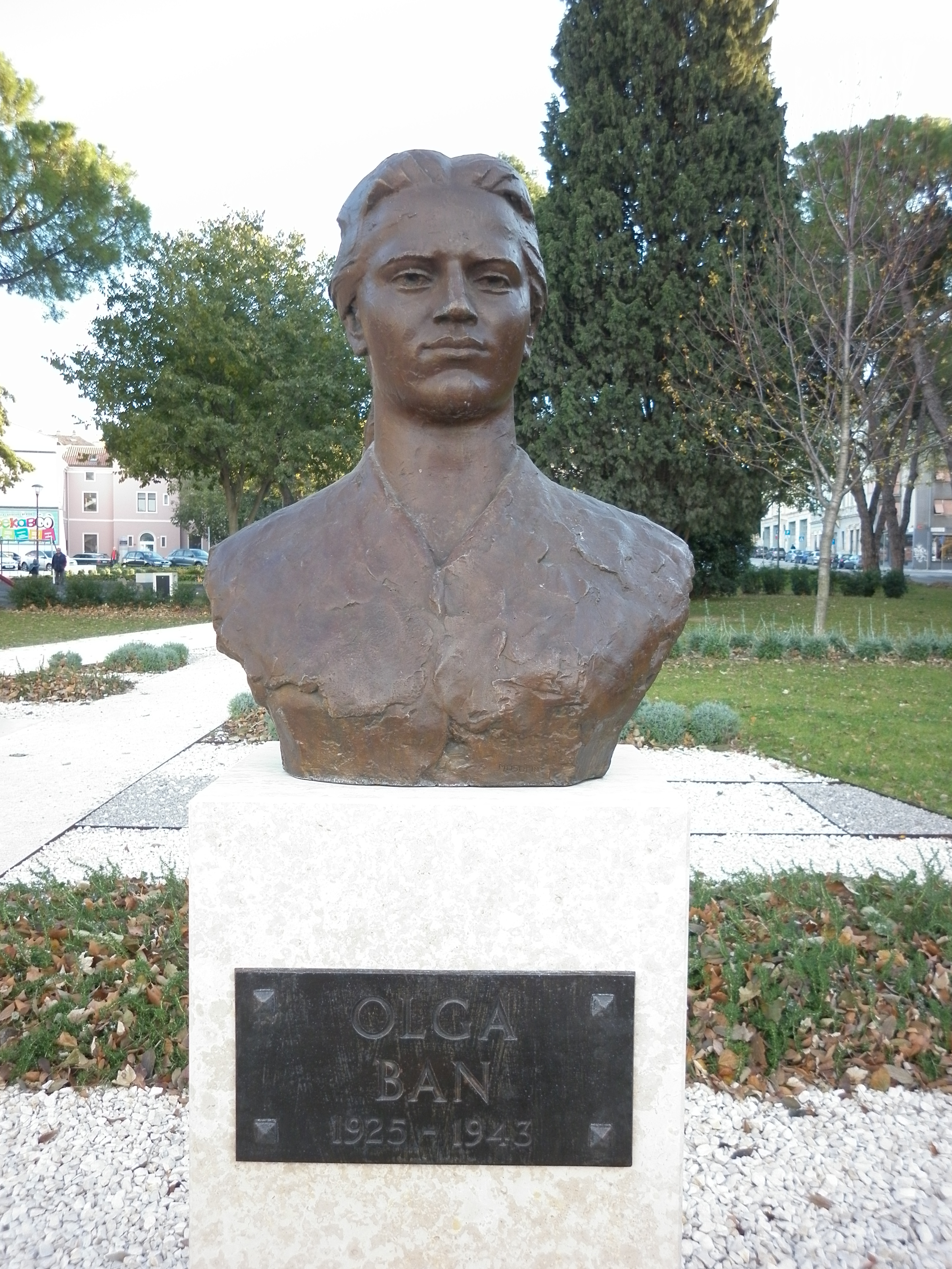 Bust of People's Hero of Yugoslavia, Olga Ban, Tito's Park, Pula.